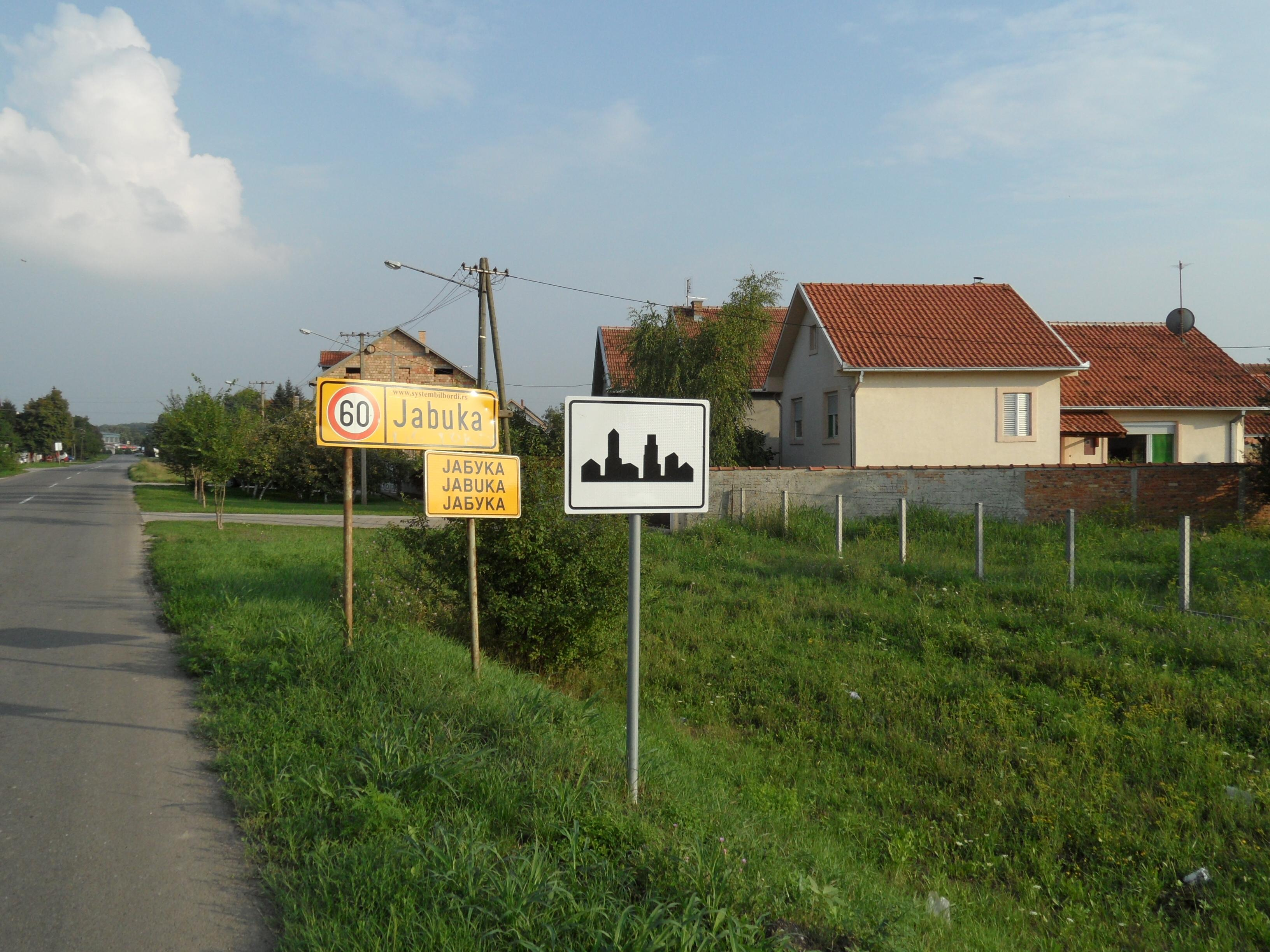 Place-name sign of Jabuka, Vojvodina, Serbia